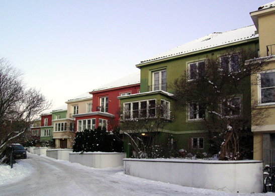 Professor Dahls gate 24C–K, Oslo. Built 1928. Architect: Nicolai Beer.